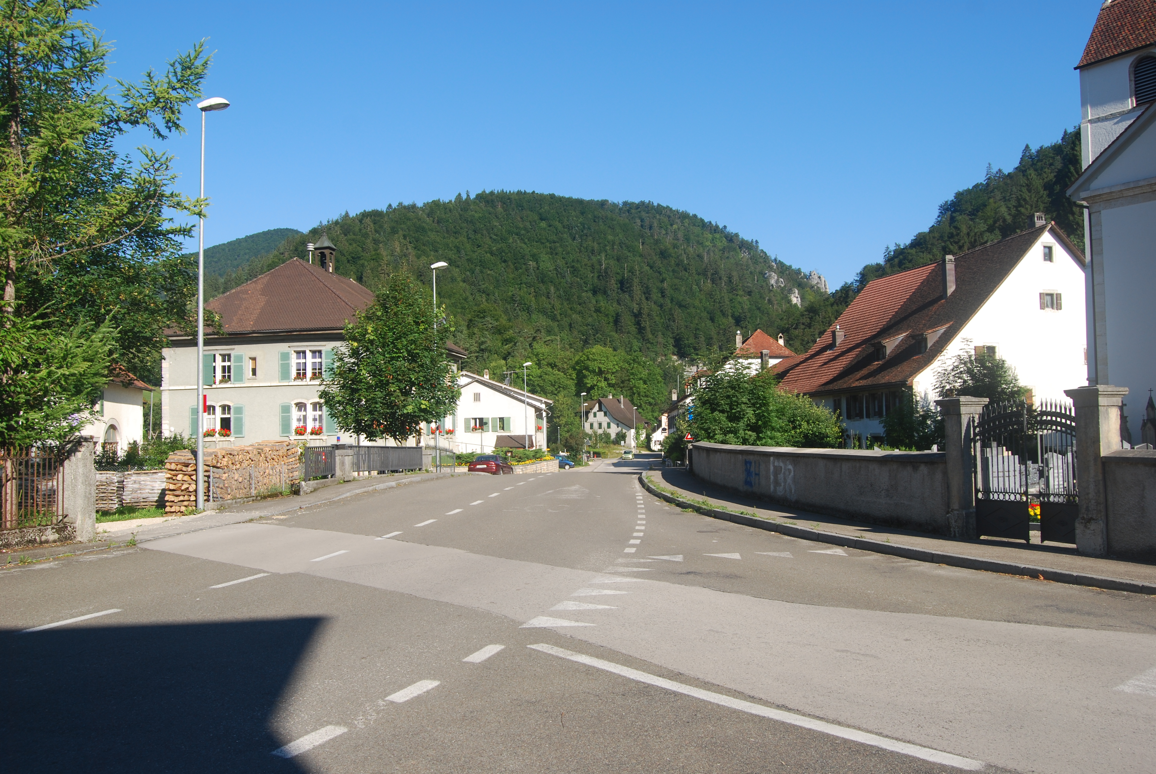 Undervelier, canton of Jura, Switzerland